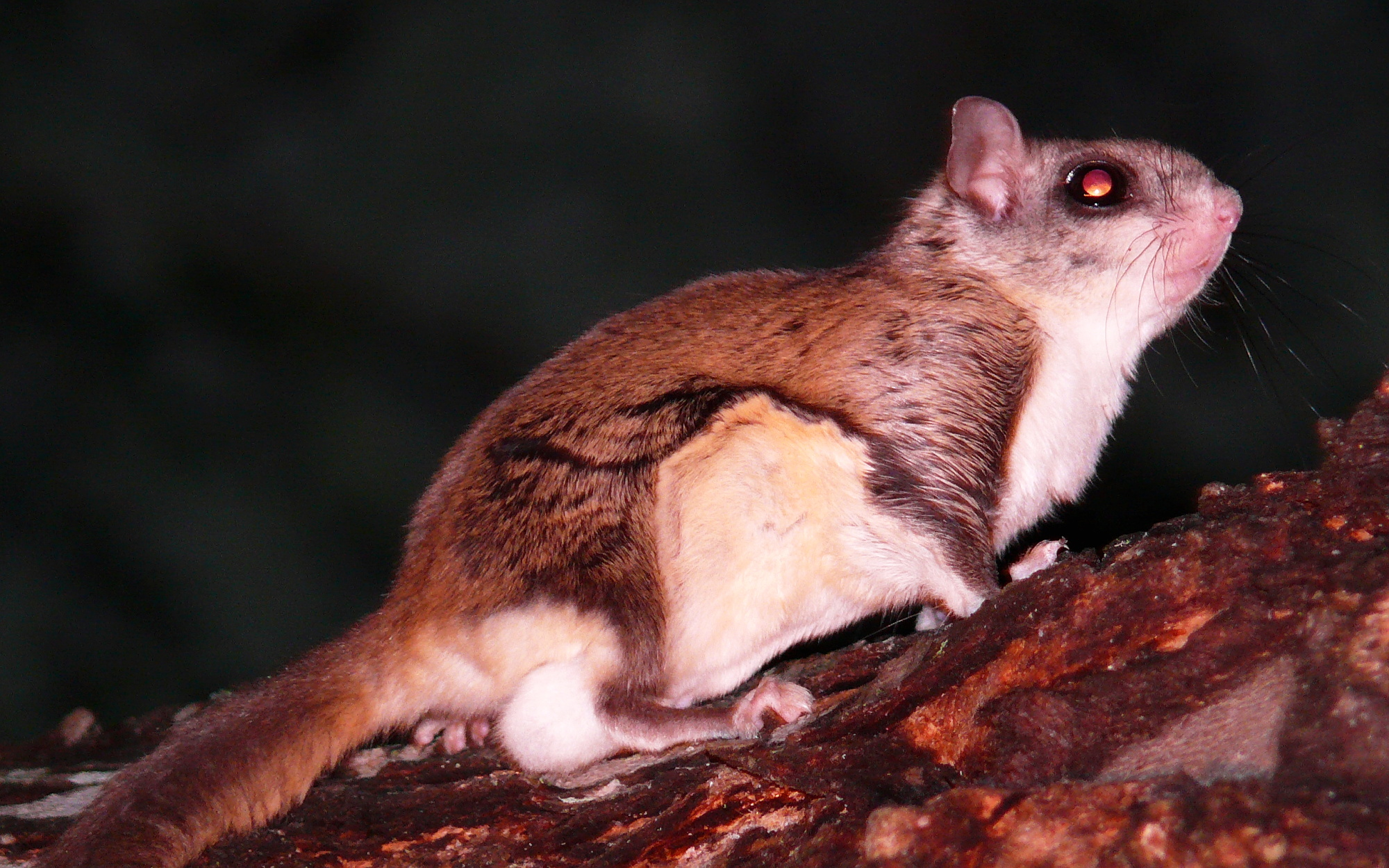 A Southern flying squirrel (Glaucomys volans) in the branches of a Red maple tree. Photo taken with a Panasonic Lumix DMC-FZ50 in Caldwell County, NC, USA.